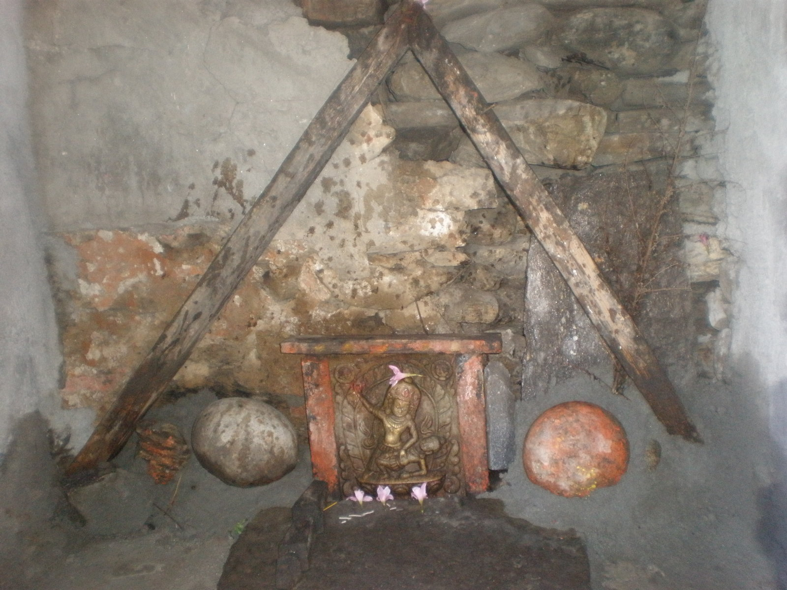 A shrine in the boarder of Nepal and China